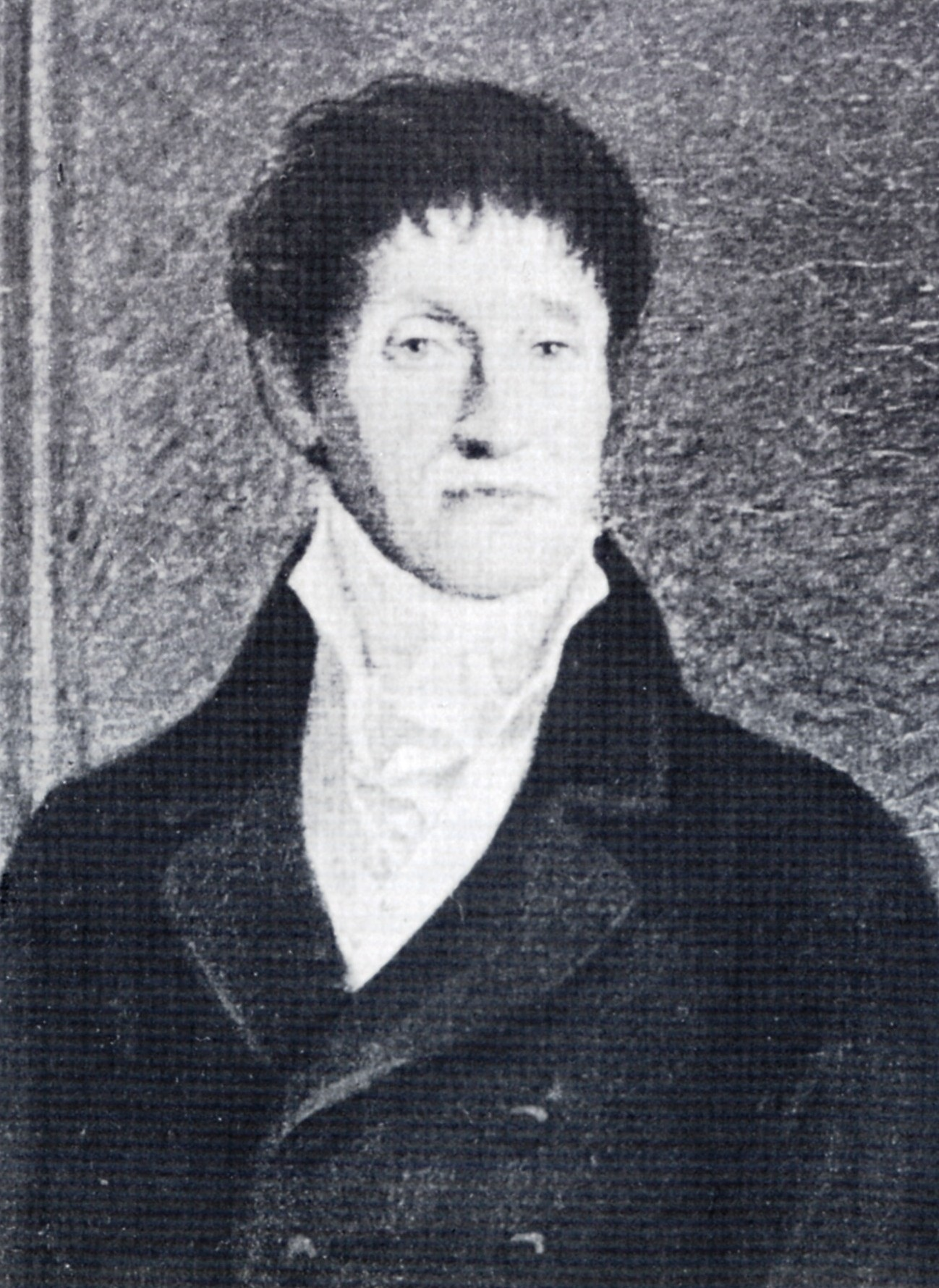 Georg Christian Franz Kübel, mayor of Heilbronn from 1803 to 1819